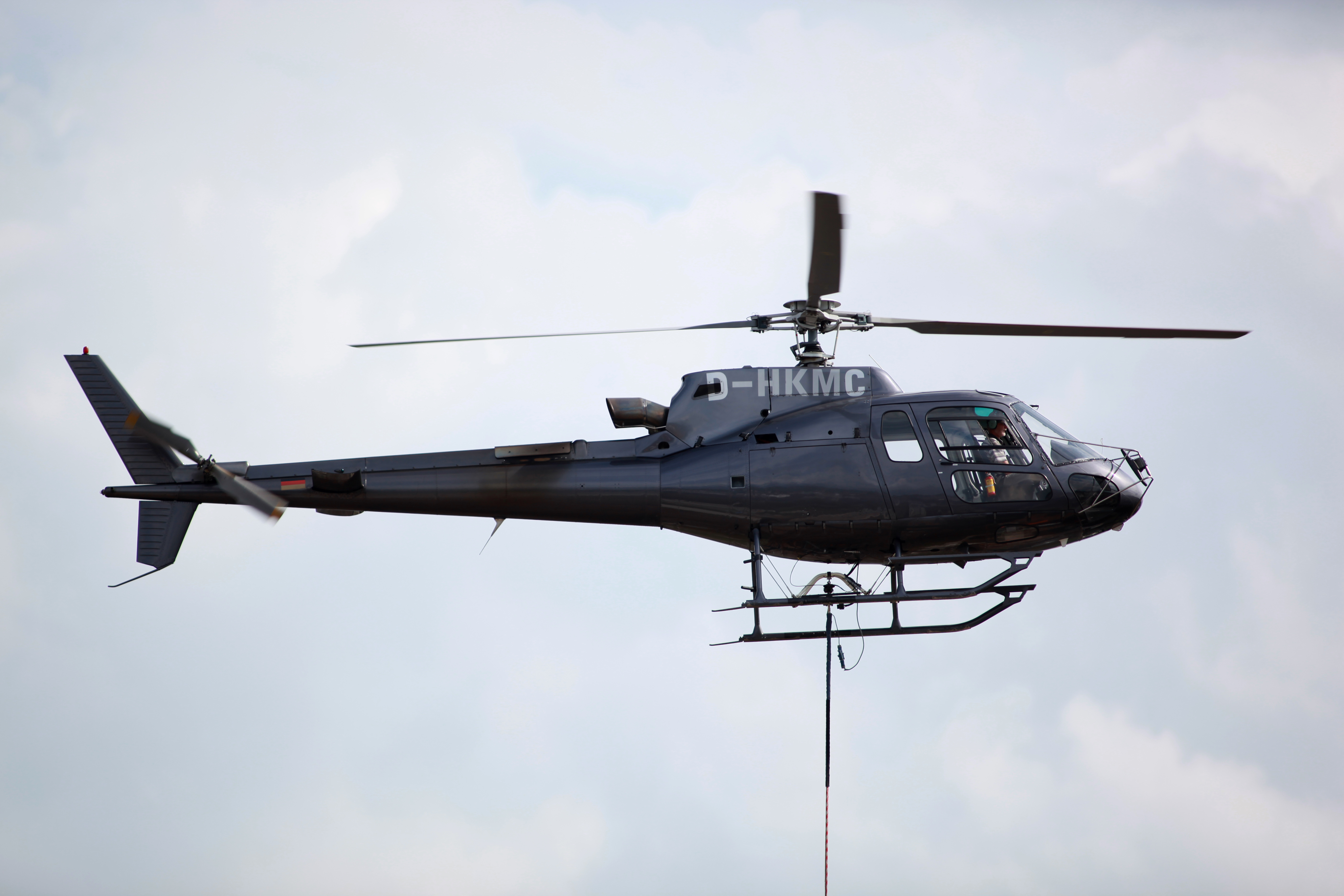 Eurocopter AS 350 B3, registration number D-HKMC, with payload (railroad signal installed at Bensheim).